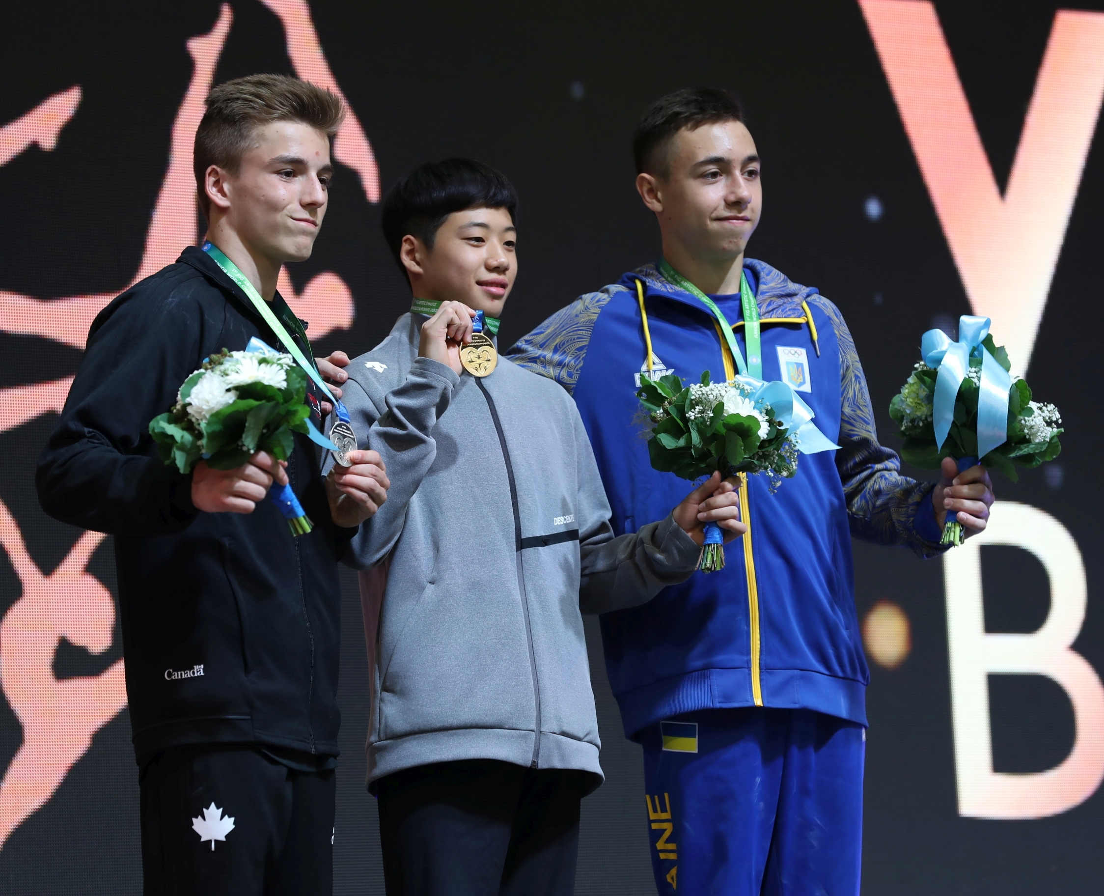 Floor exercise victory ceremony during the boys' apparatus finals at the 1st FIG Artistic Gymnastics Junior World Championships on 29 June 2019 in Győr, Hungary. Depicted: Félix Dolci. Nazar Chepurnyi. Sunghyun Ryu.